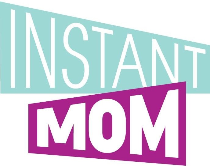 Logo of the Nick at Nite sitcom Instant Mom